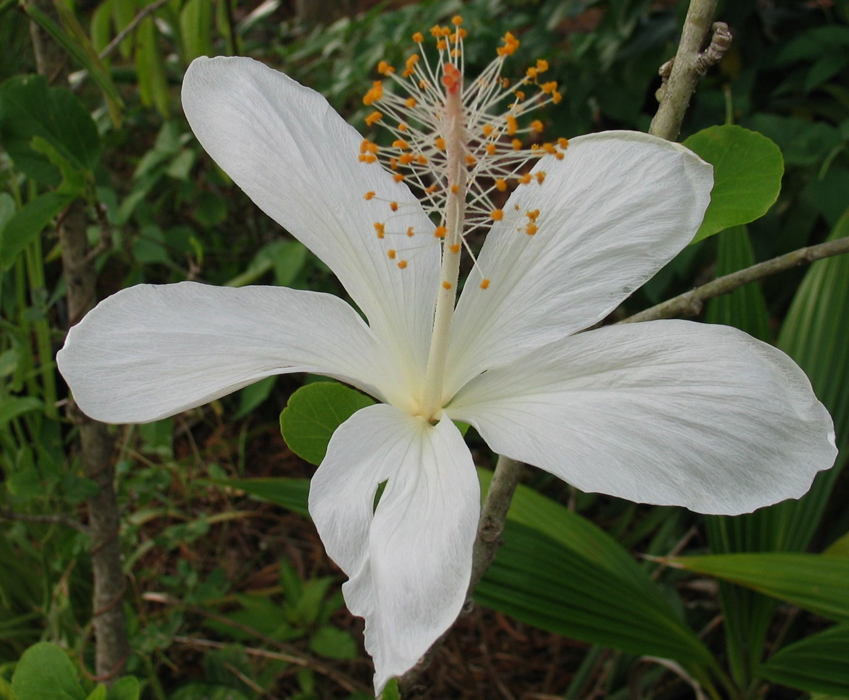 Kokiʻo keʻokeʻo or Molokaʻi white hibiscus Malvaceae Endemic to the Hawaiian Islands Endangered Oʻahu (Cultivated) The two native Hawaiian white hibiscuses, Hibiscus arnottianus and H. waimeae, are the only known species of hibiscuses in the world known to have fragrant flowers!